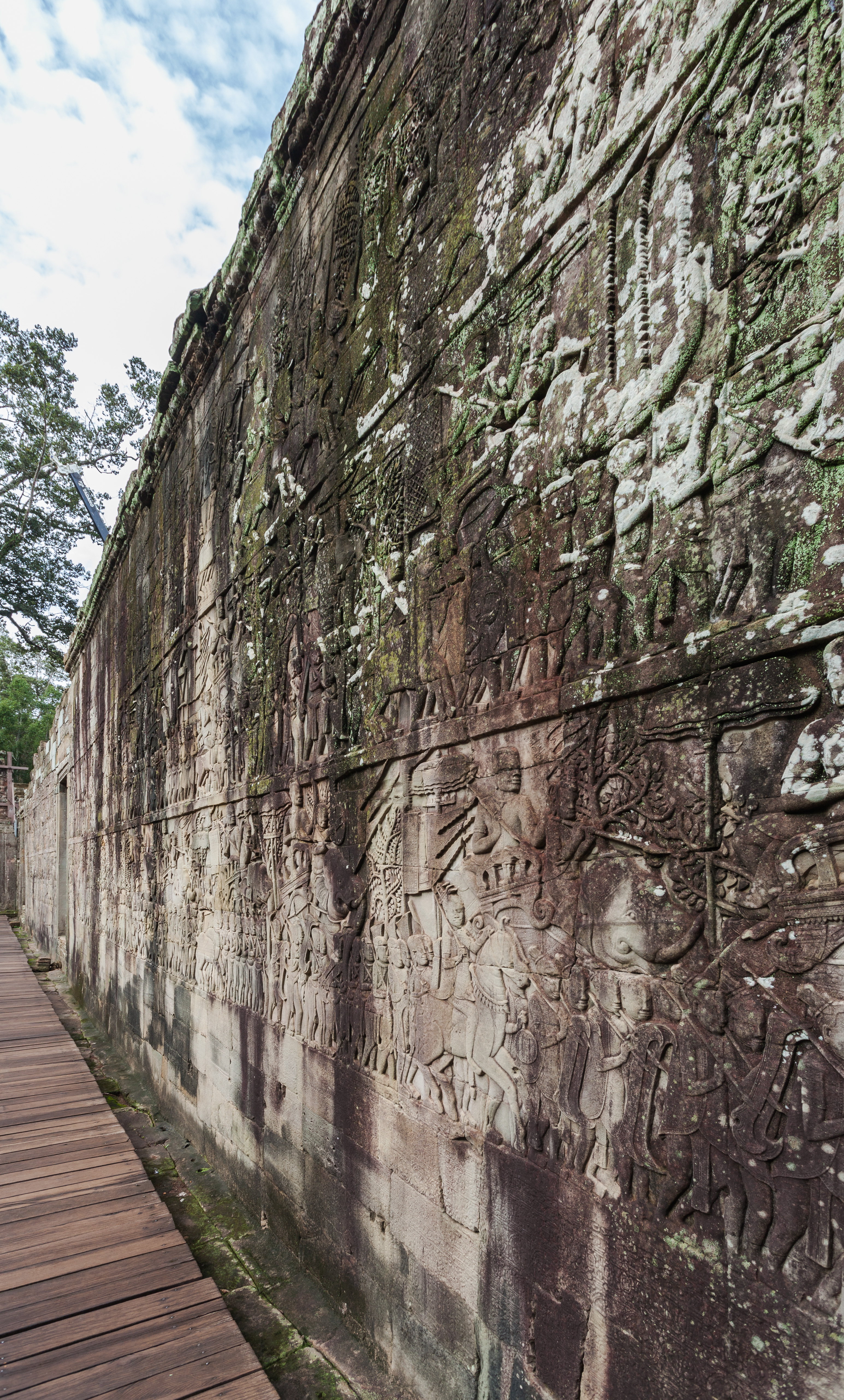 Bayon, Angkor Thom, Cambodia